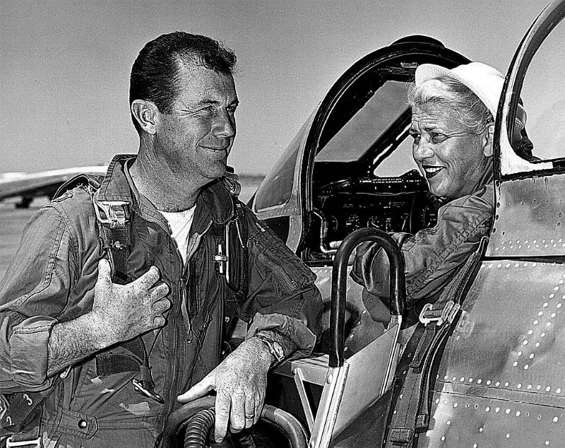 Jackie Cochrane in her record-setting Canadair F-86, talking with Charles E. Yeager